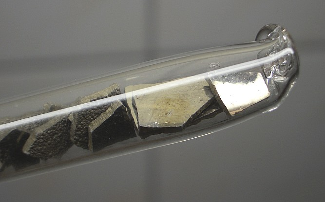 Manganese metal chunks in an ampoule